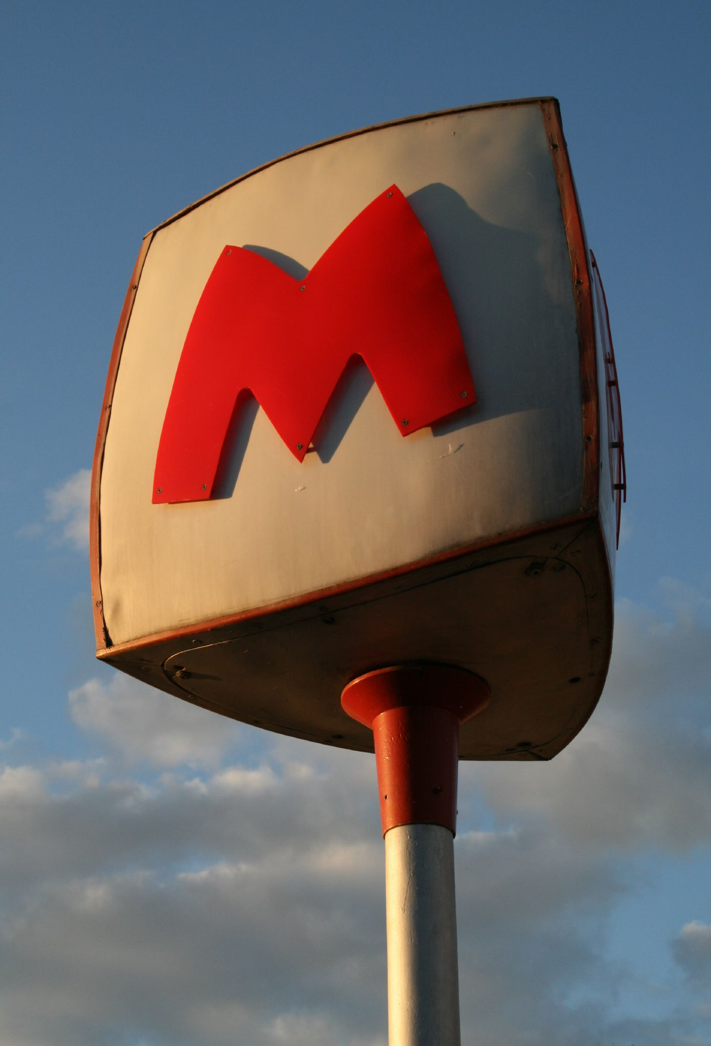 Flag "The entrance to the metro" in Kharkov.